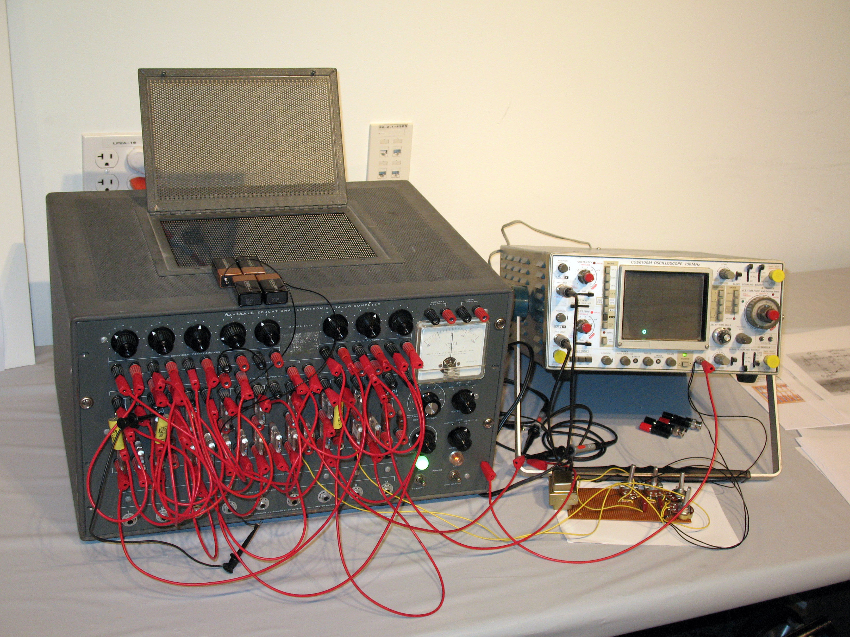 Heathkit EC-1 Educational Electronic Analog Computer programmed with patch cords and the results displayed on an oscilloscope. Displayed by Eric Schmidthuber at the Vintage Computer Festival. This was held at the Computer History Museum in Mountain View, California, November 2006. Photo by Michael Holley. Taken with a Canon PowerShot A630 using existing light.